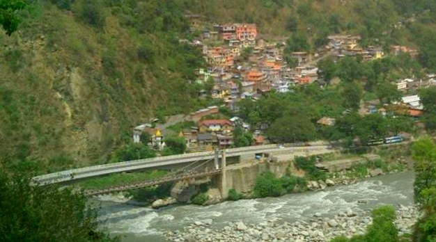 Chamba from across the river, Himachal Pradesh.